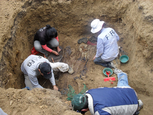 Forensic anthropologists from the Fundación de Antropología Forense de Guatemala conduct an exhumation of the common grave where the bodies of Apolinario Urízar, Estaban Yuja and Esteban Tello were buried 28 years ago. These men were farmers and businessmen who were killed by the guerilla.[1]